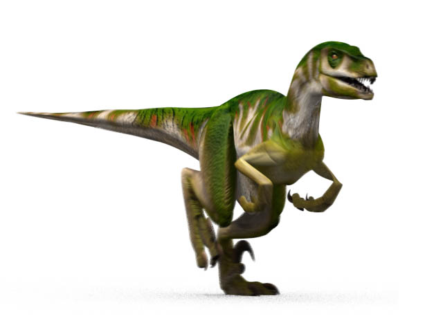 Utah Raptor